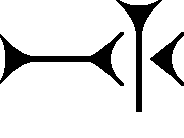 Cuneiform sign "arrow", "life" (Sumerian TI)